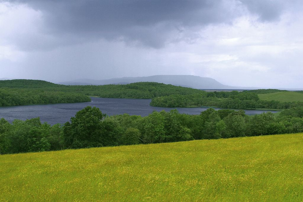 Lough Erne in County Fermanagh of Northern Ireland. Photograph taken June 18, en:2002, with a Canon D60 camera. [1]